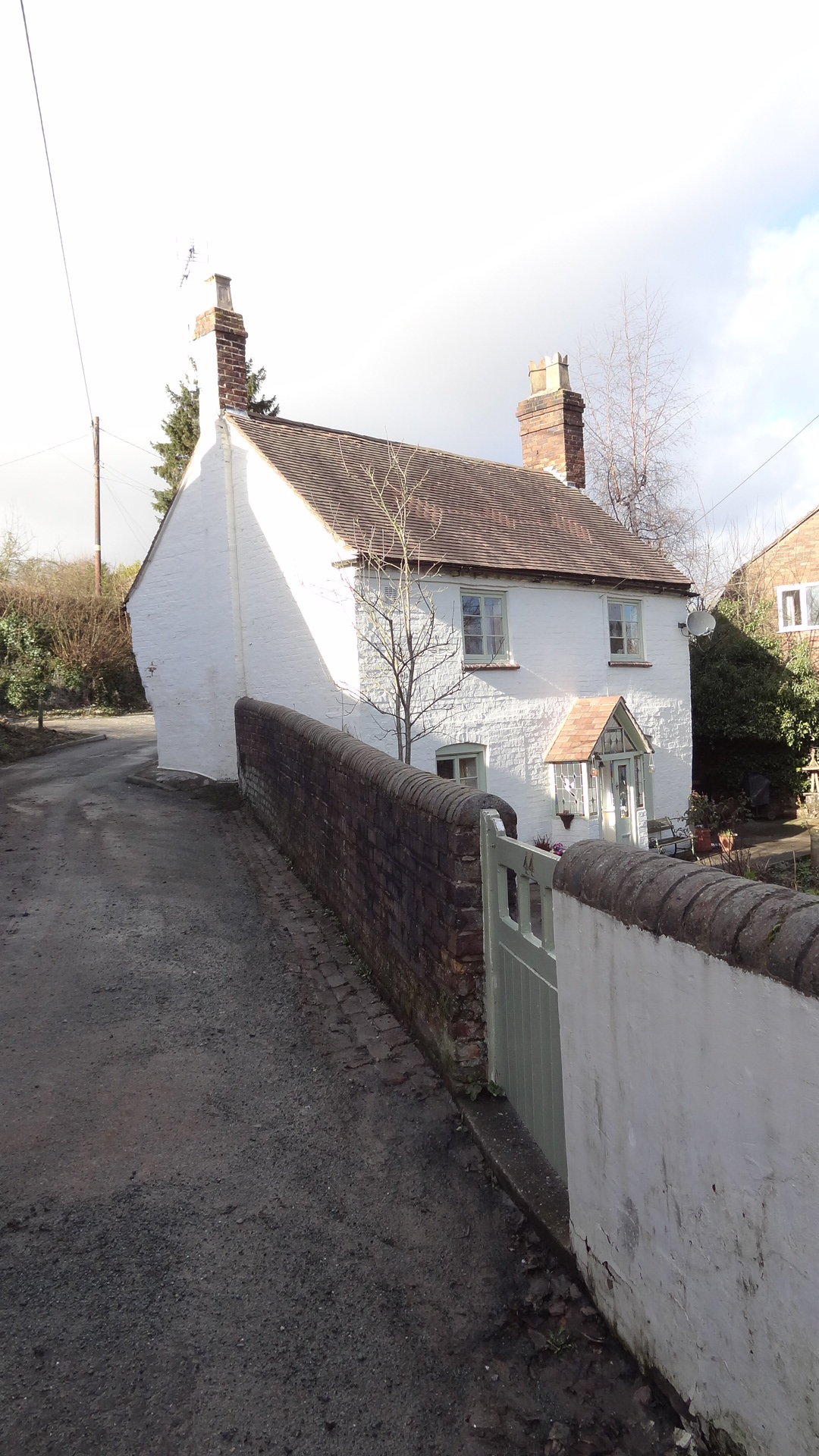 Cottage on a street called The Mines, Benthall, Shropshire